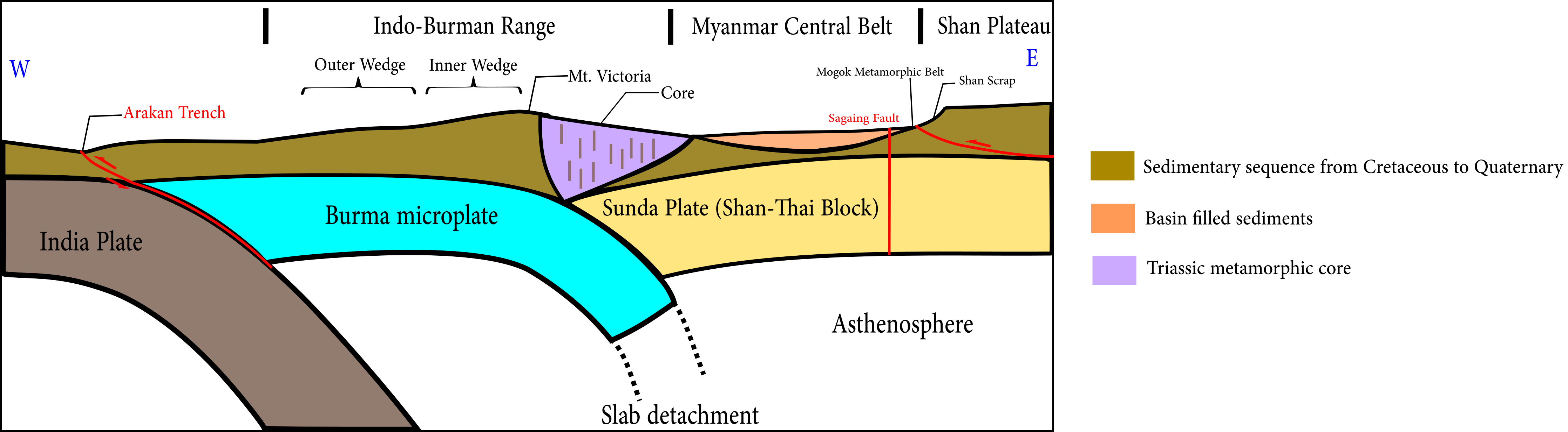 The x-sxn of Myanmar